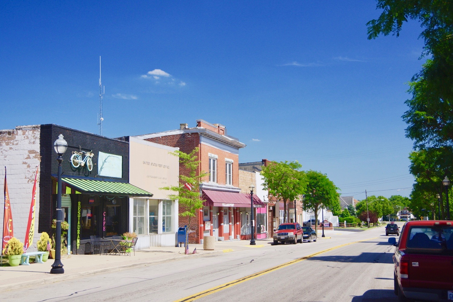 View along Main Street (SR 41/SR 734) in Jeffersonville, Ohio, United States.